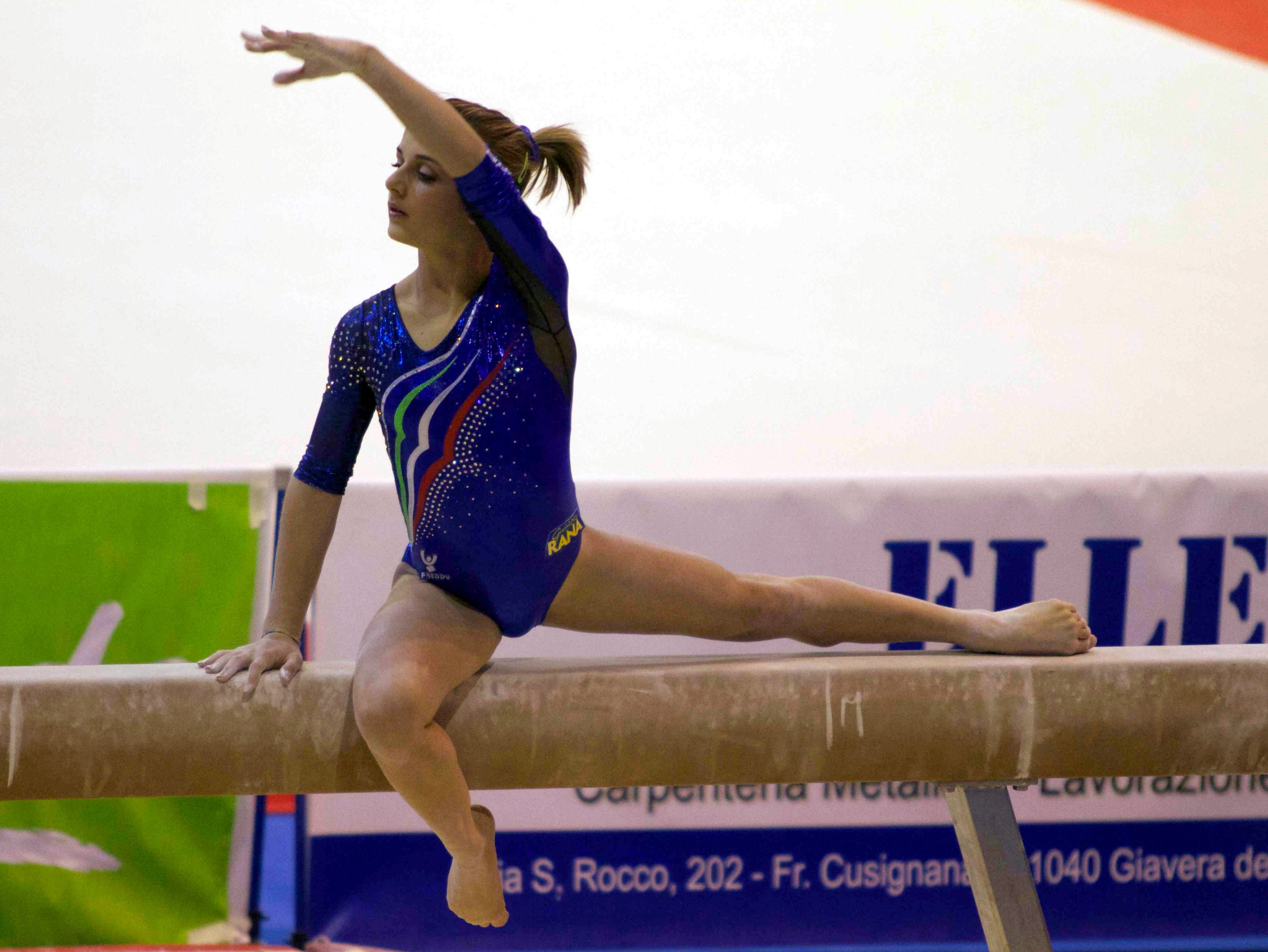 Elisa Meneghini. Jesolo, 24th march 2013